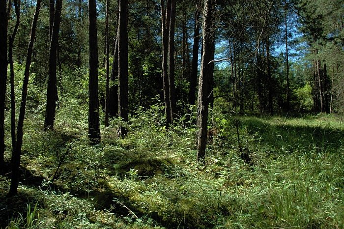 Goodyera repens, habitat: pine forest, Rhön, Germany